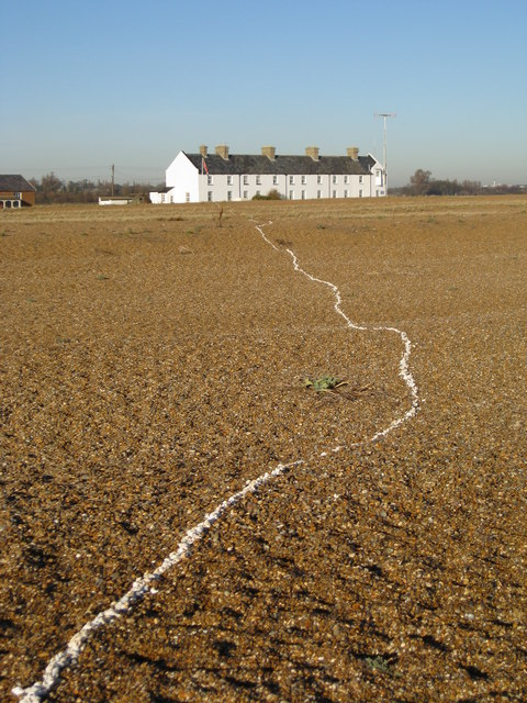 I walk the line! This amazing line of shells goes across the shingle from the sea to the cottages.